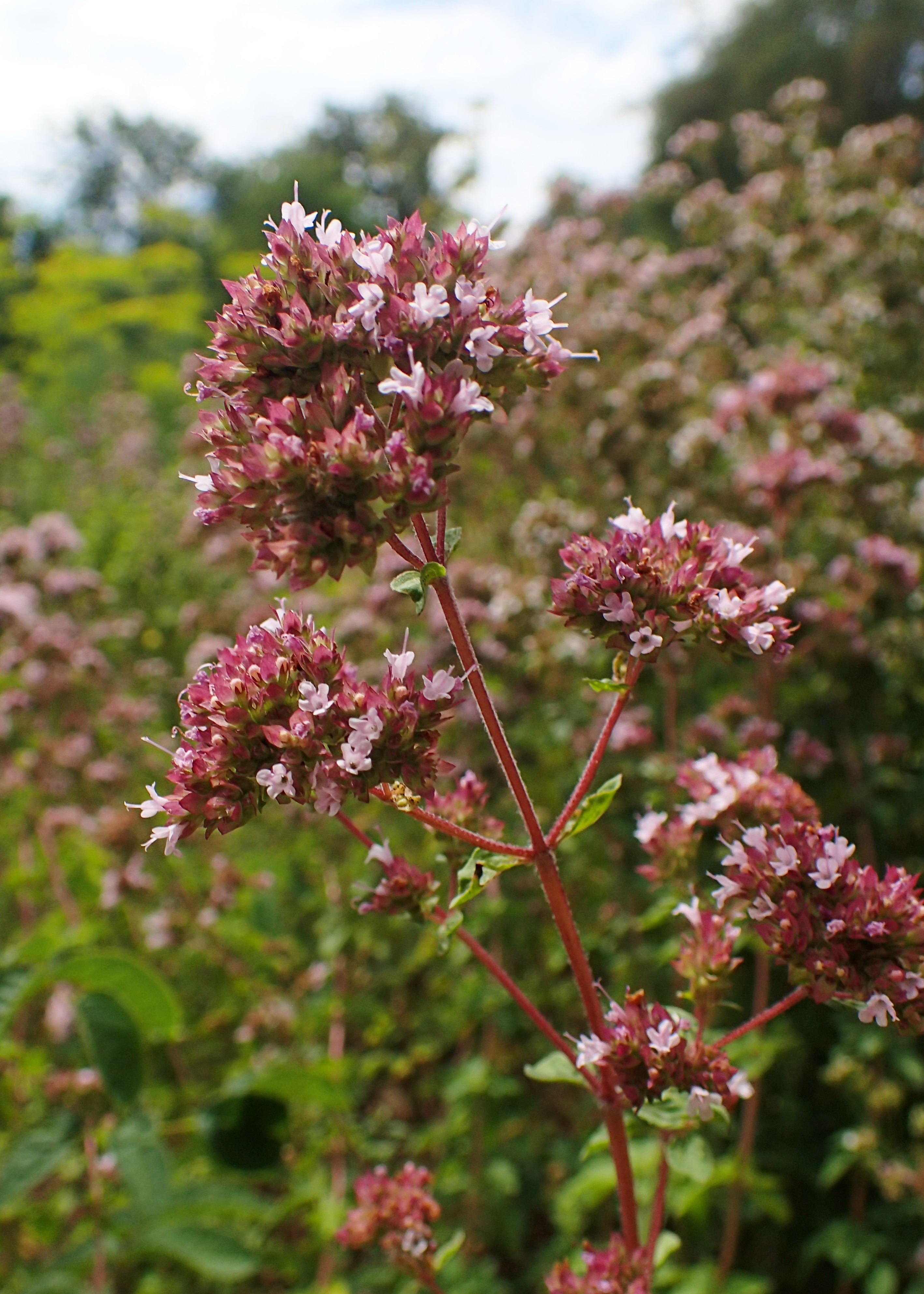 Origanum vulgare in the UMCS Botanical Garden in Lublin